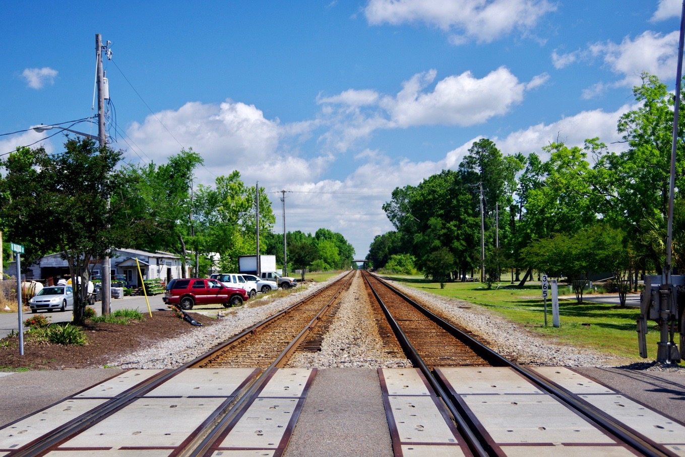 Railroad tracks at Main Street in Moncks Corner, South Carolina, United States.